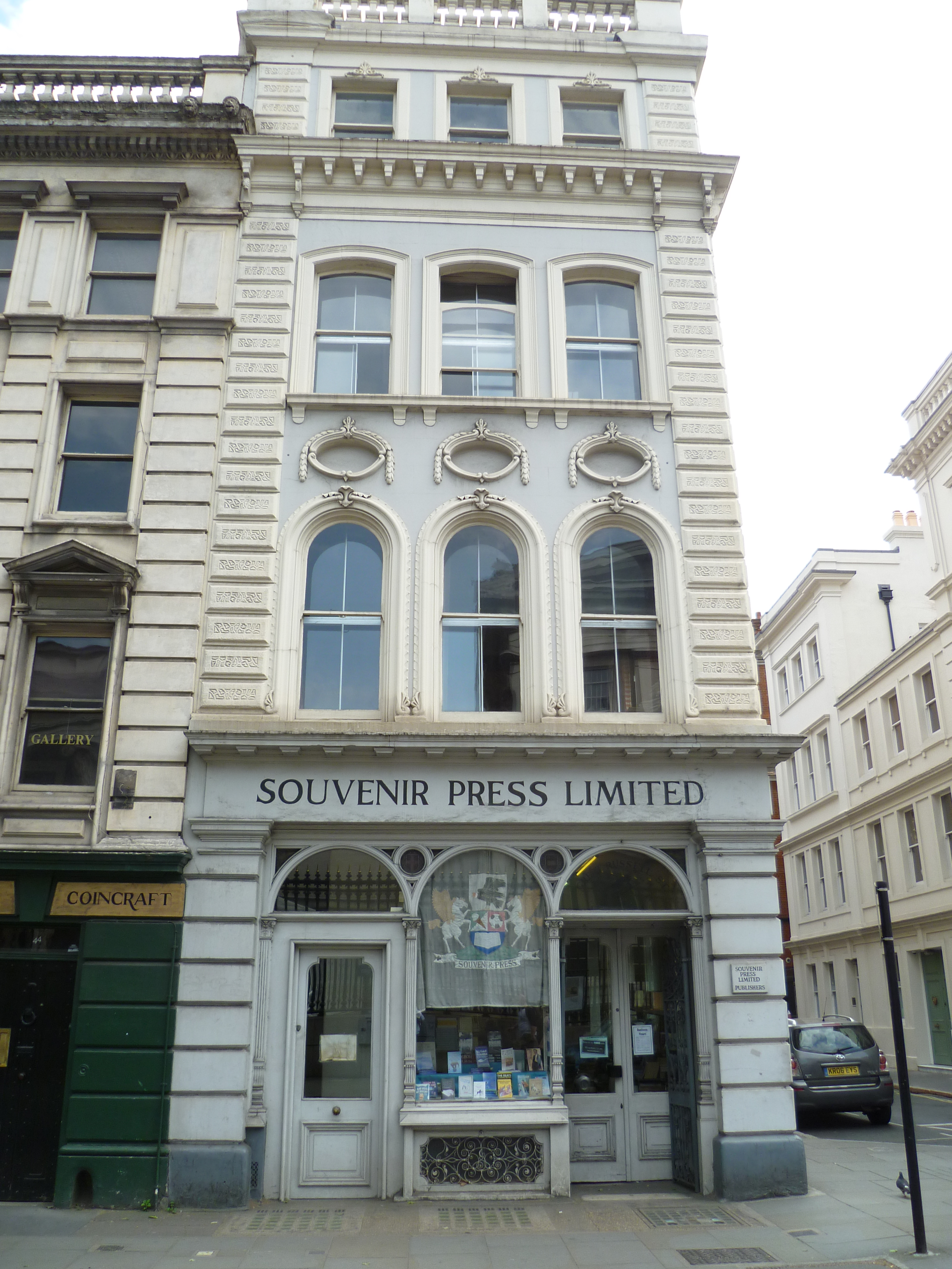 London